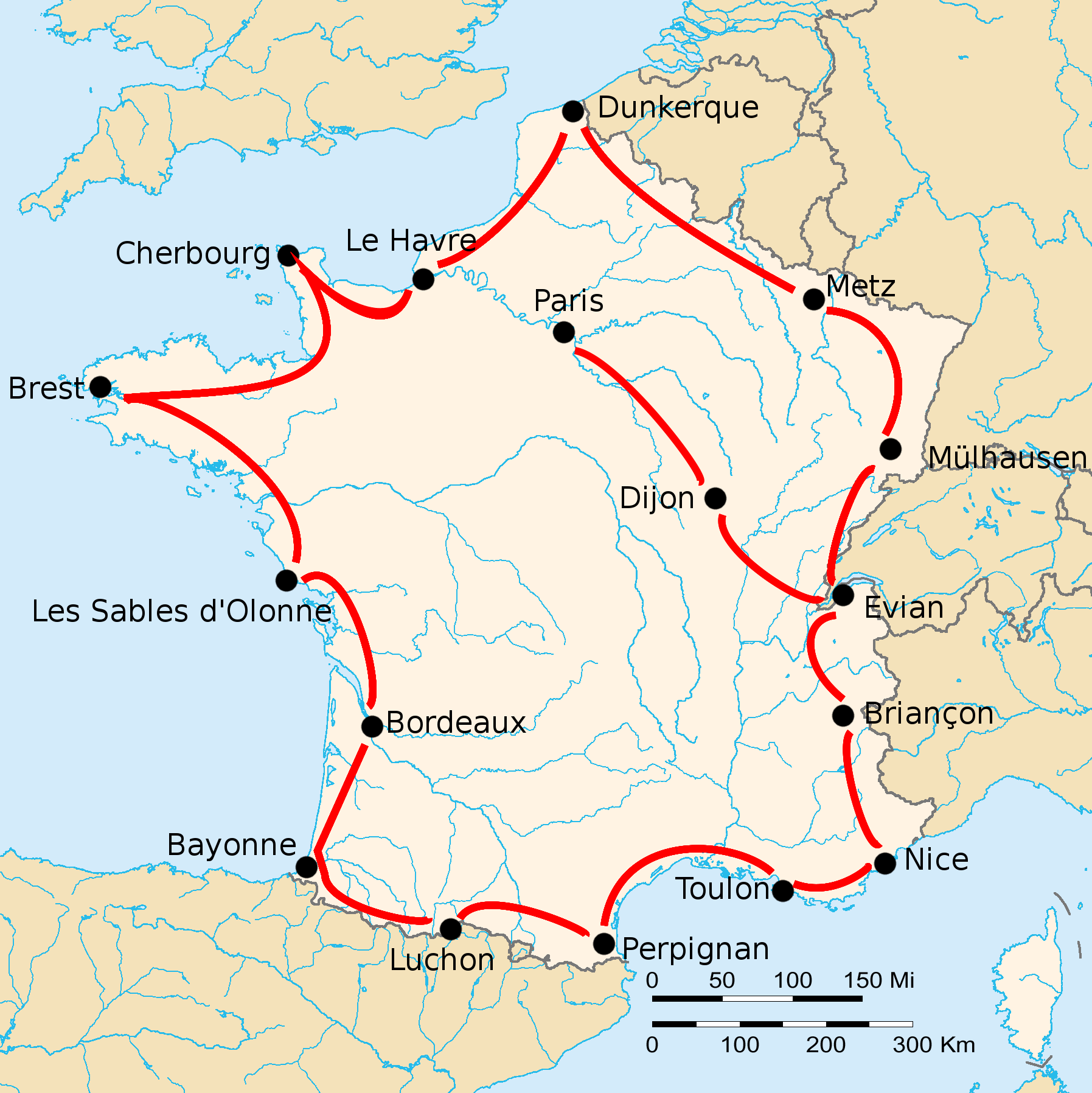 Route of the 1926 Tour de France, starting in Evian and finishing in Paris, run counter-clockwise.